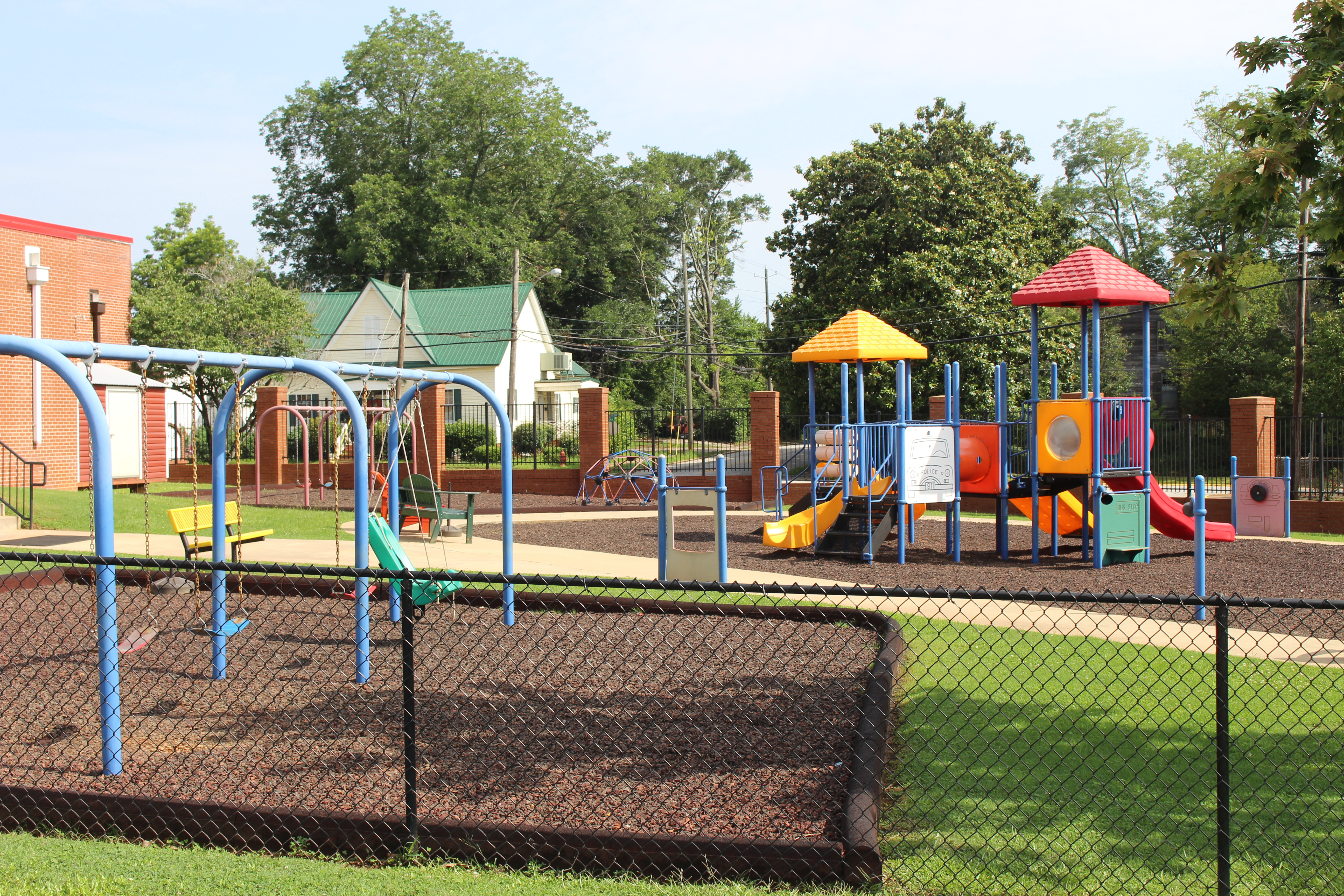 R. E. Lee Institute, Thomaston, Upson County, Georgia